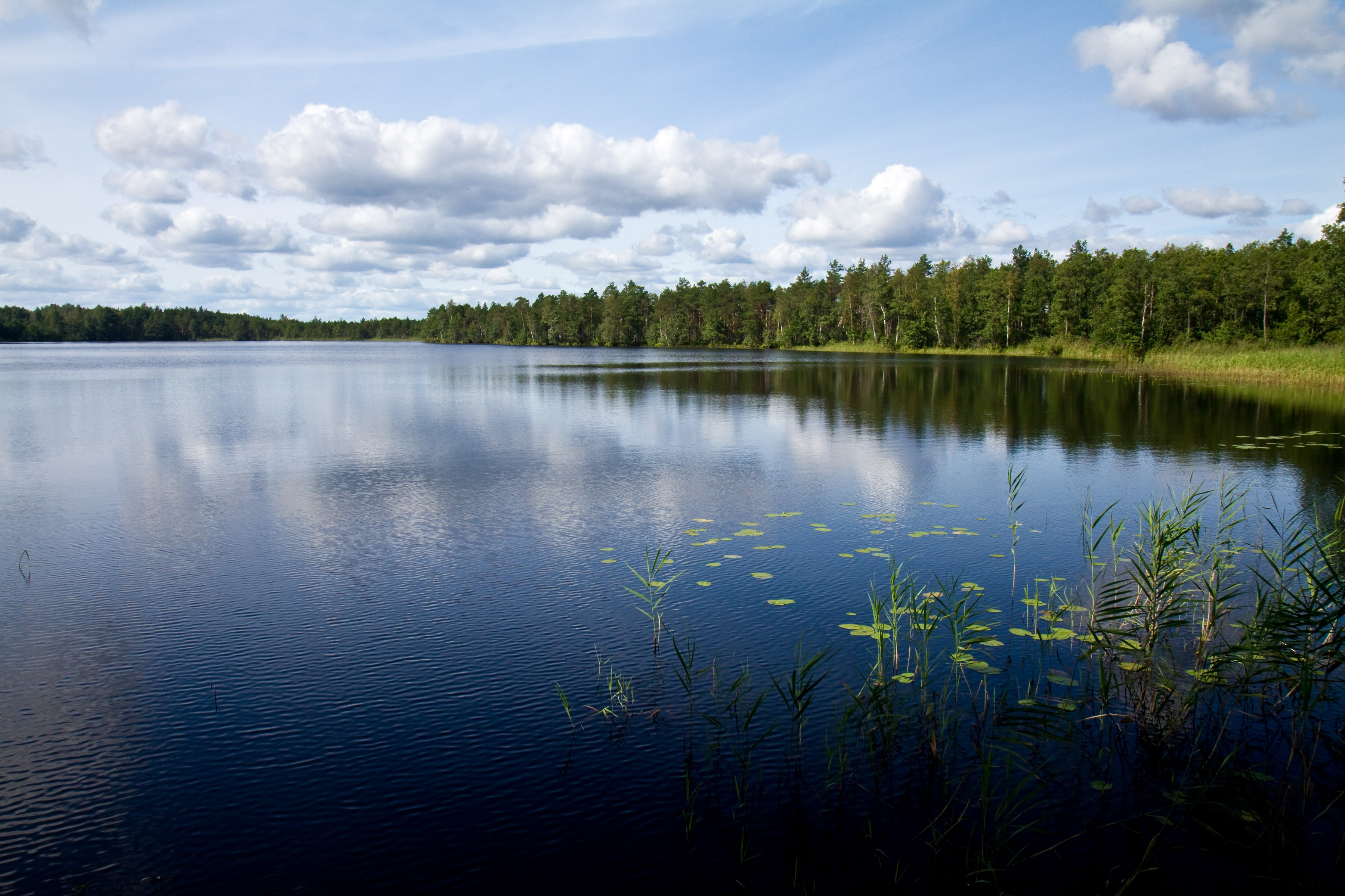 Ciacierki Lake. Miory district, Viciebsk province, Belarus.